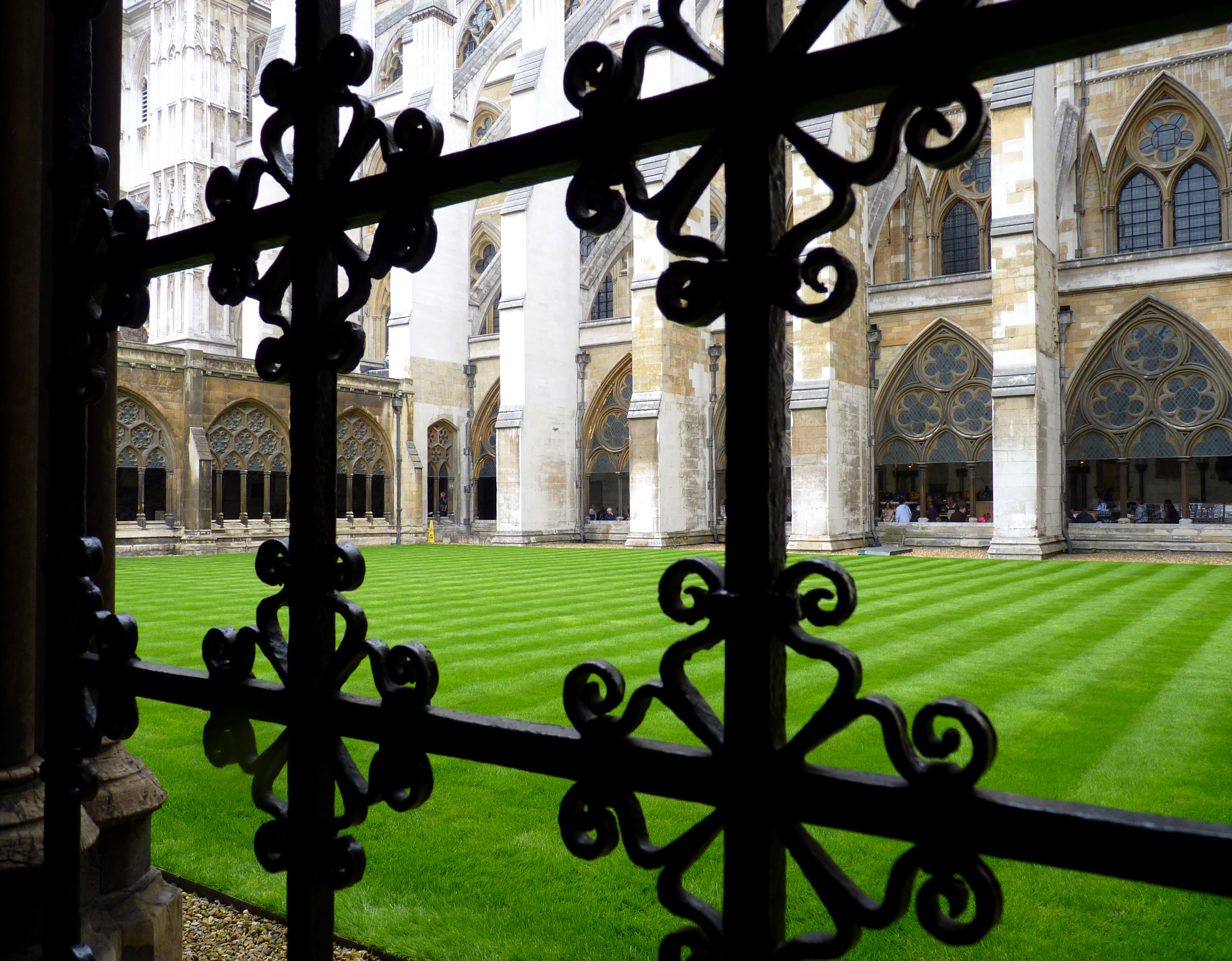 The inner garden of the Westminster Abbey.